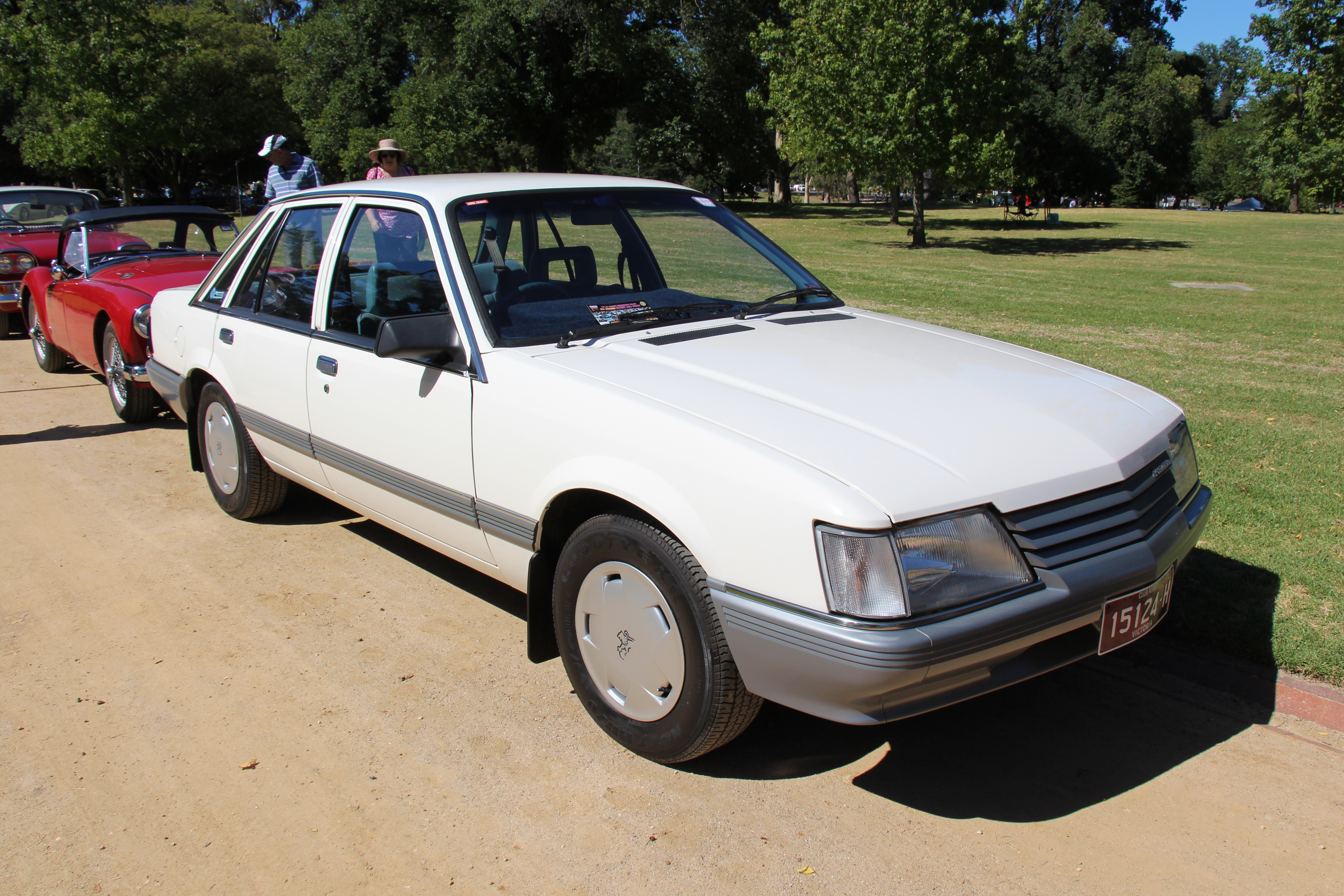 Holden Commodore (VK) Executive sedan, with Berlina hubcaps.